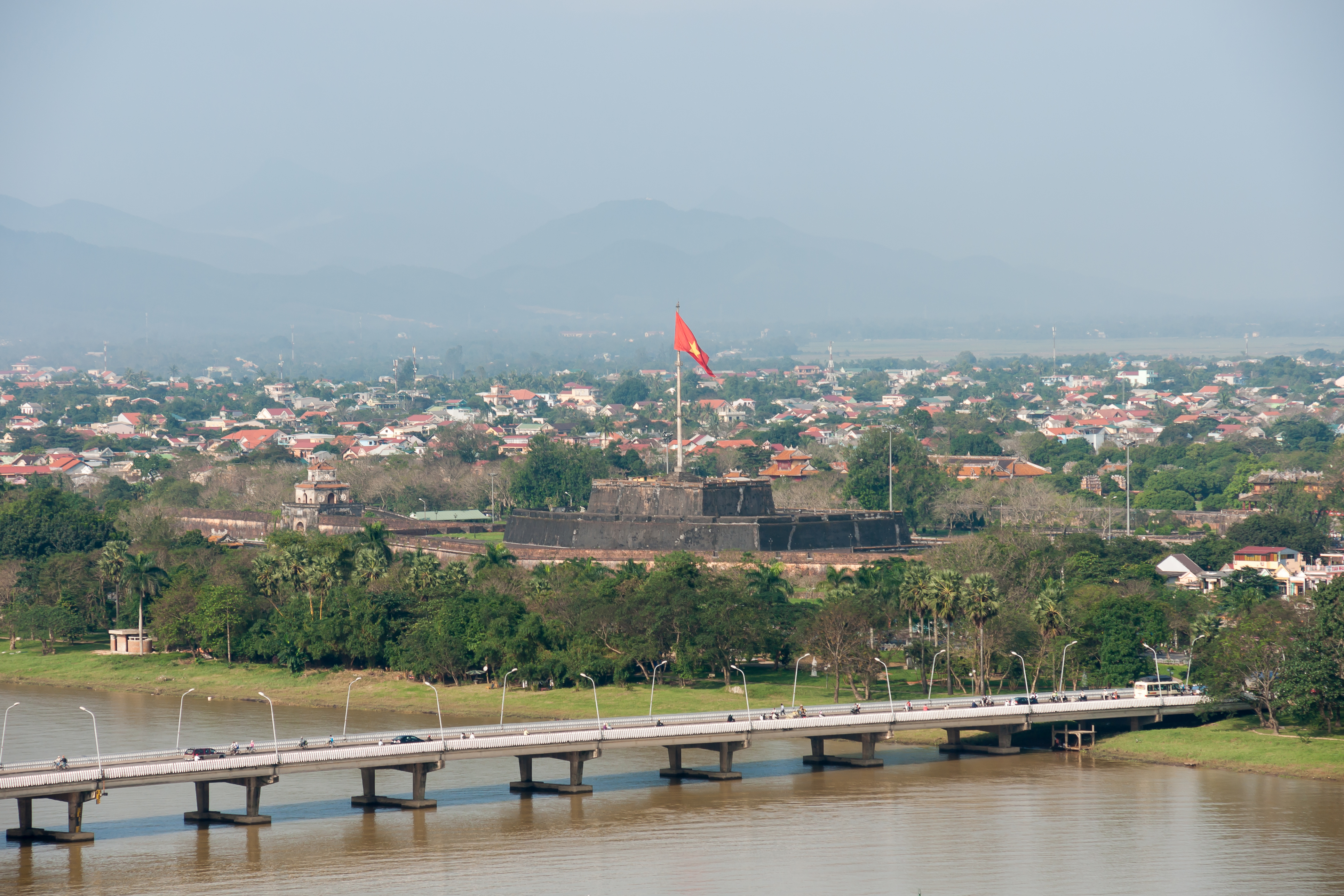 Hue, Vietnam: The perfume river (Hương Giang) and the Phú Xuân Bridge at Huế.